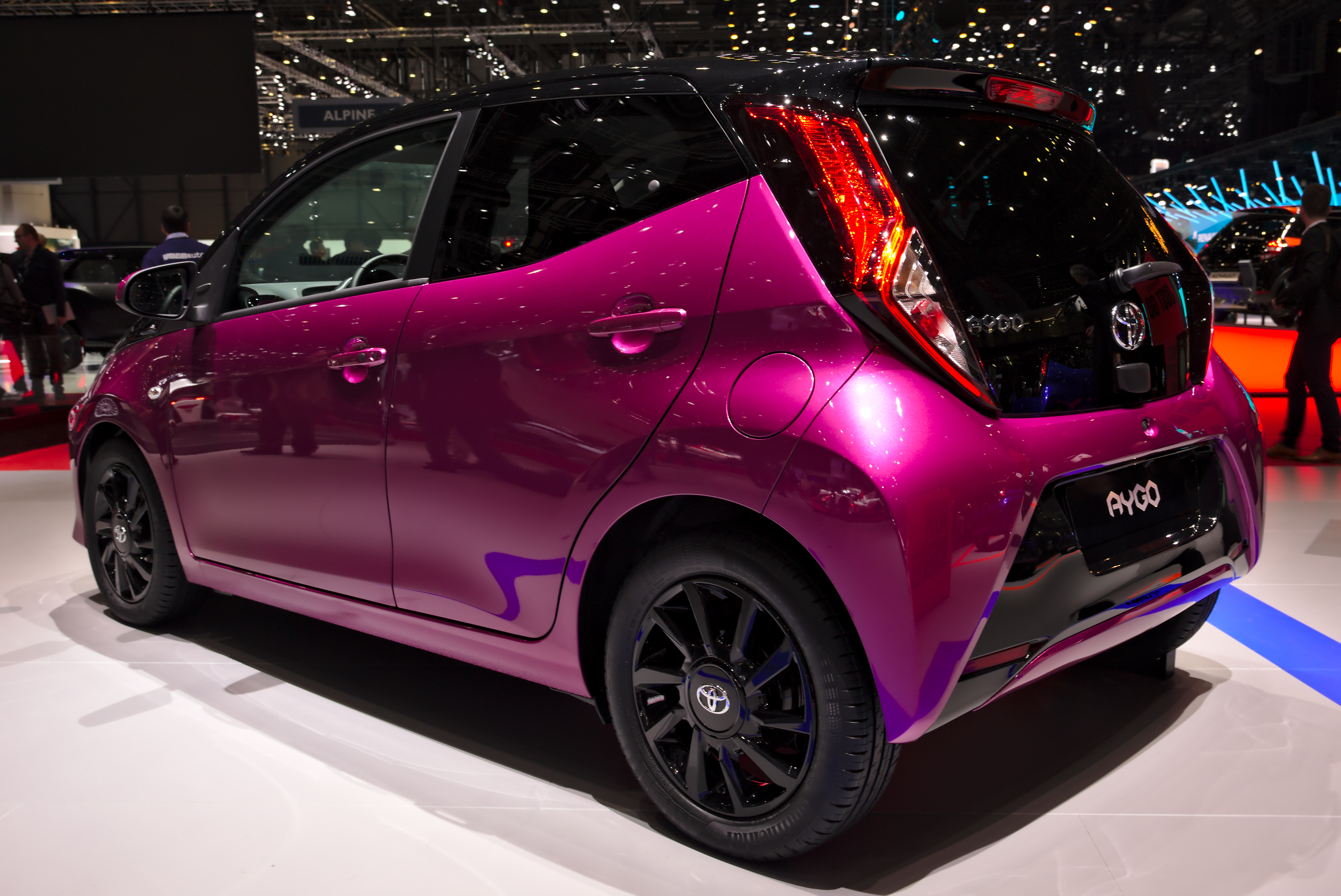 Toyota Aygo at Geneva Motorshow 2018